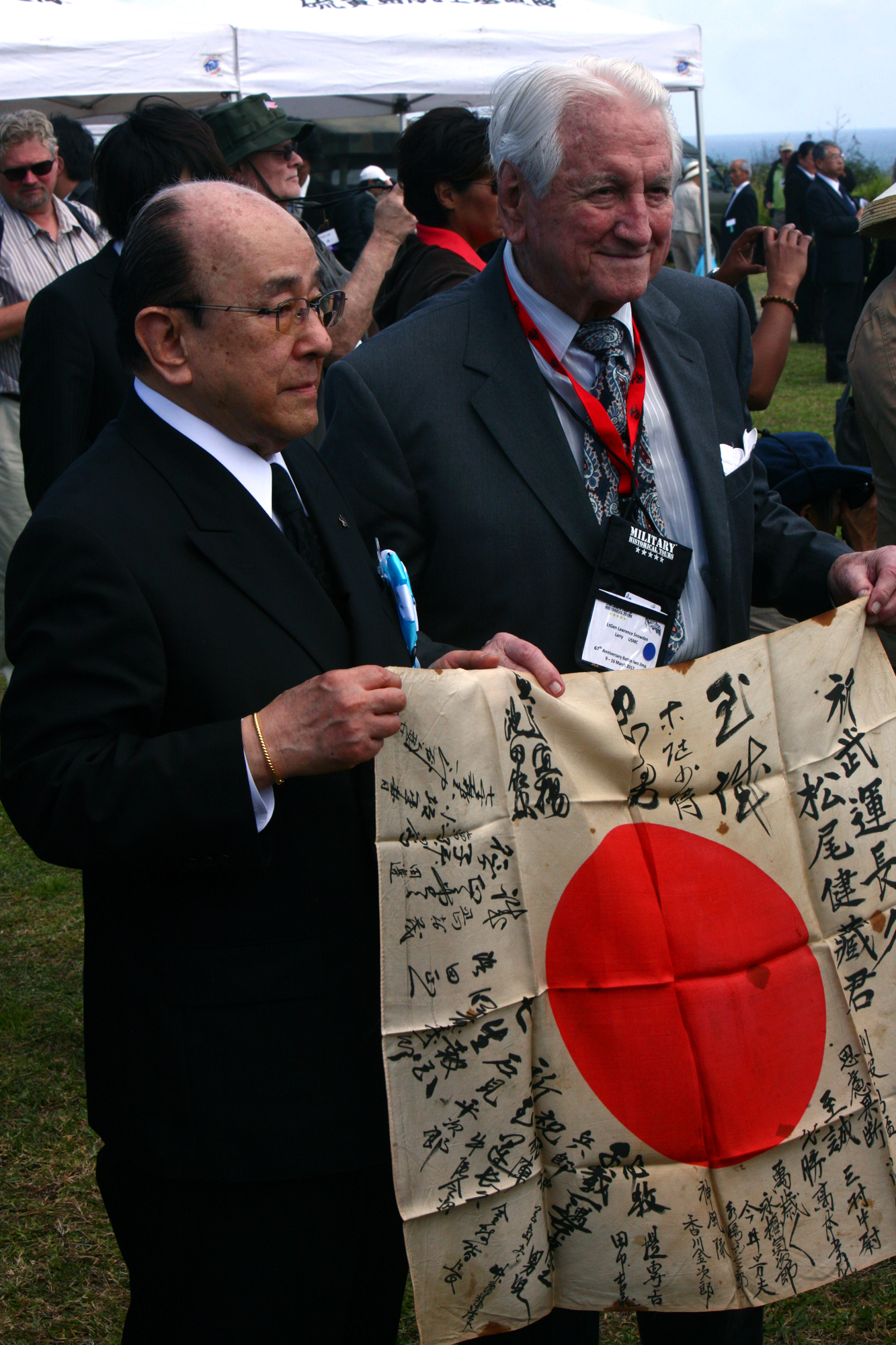 Yasunori Nishi, left, and retired Marine Lt. Gen. Lawrence F. Snowden hold an old Japanese flag during the 67th Iwo Jima Reunion of Honor ceremony here March 14.